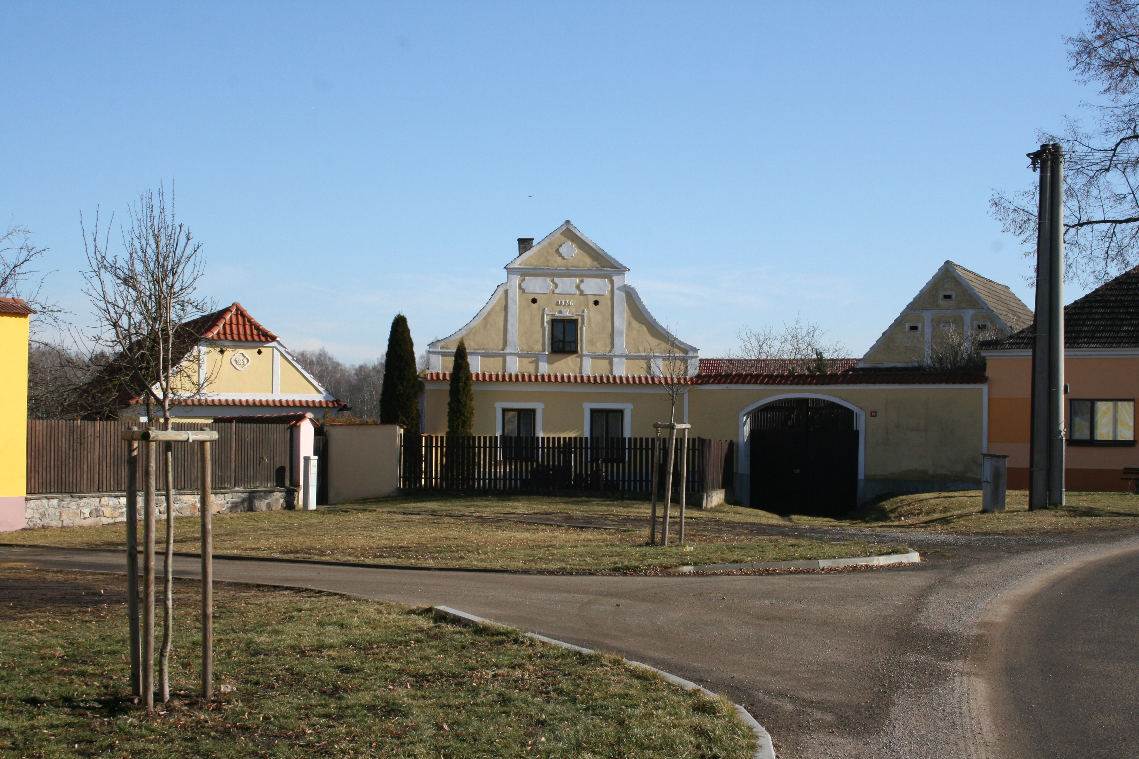 Borkovice Village, Tábor District, Czech Republic. Typical architecture.